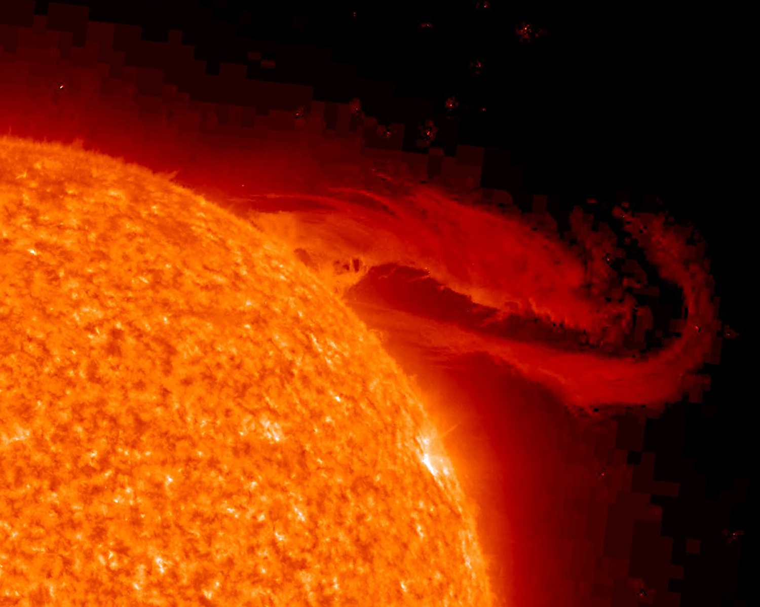 On September 29, this magnificent eruptive solar prominence lifted away from the Sun's surface, unfurling into space over the course of several hours. Suspended in twisted magnetic fields, the hot plasma structure is many times the size of planet Earth and was captured in this view by the Sun-watching STEREO (Ahead) spacecraft. The image was recorded in extreme ultraviolet light emitted by ionized Helium, an element originally identified in the solar spectrum. Seen against the brilliant solar surface in visible light, such prominences appear as dark filaments because they are relatively cool. But they are bright themselves when viewed against the blackness of space, arcing above the Sun's edge. A video of the eruption (a 2.6MB .mov file) is available here.